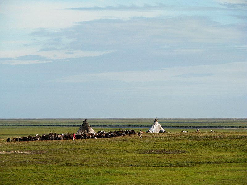 тундры юго-западного Ямала